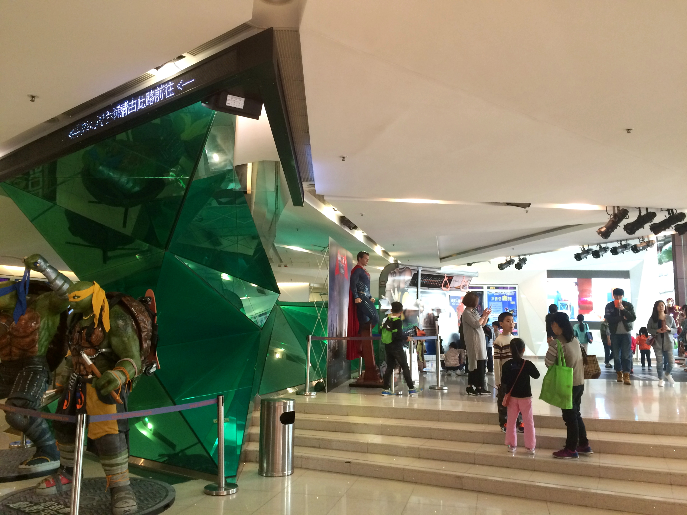 MCL Telford Interior